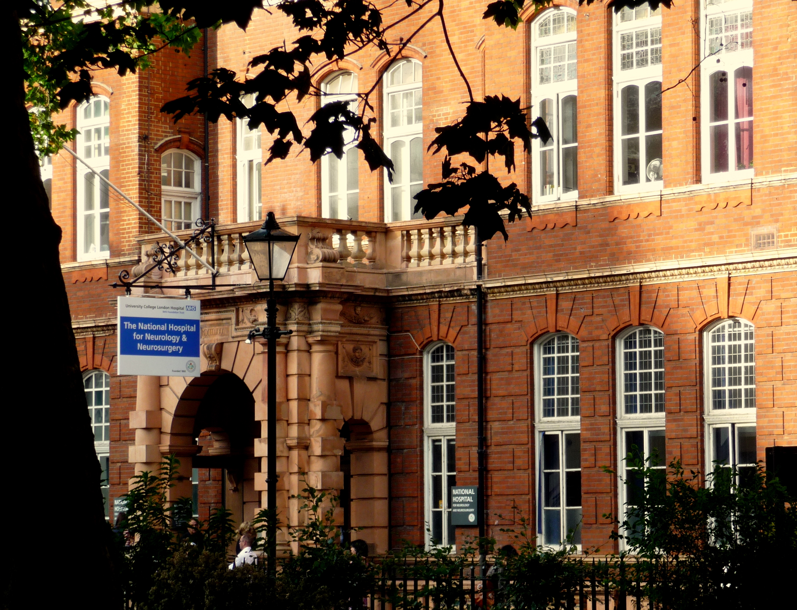 Entrance of the National Hospital for Neurology and Neurosurgery, viewed from inside the garden, Queen Square, London, sept. 2011